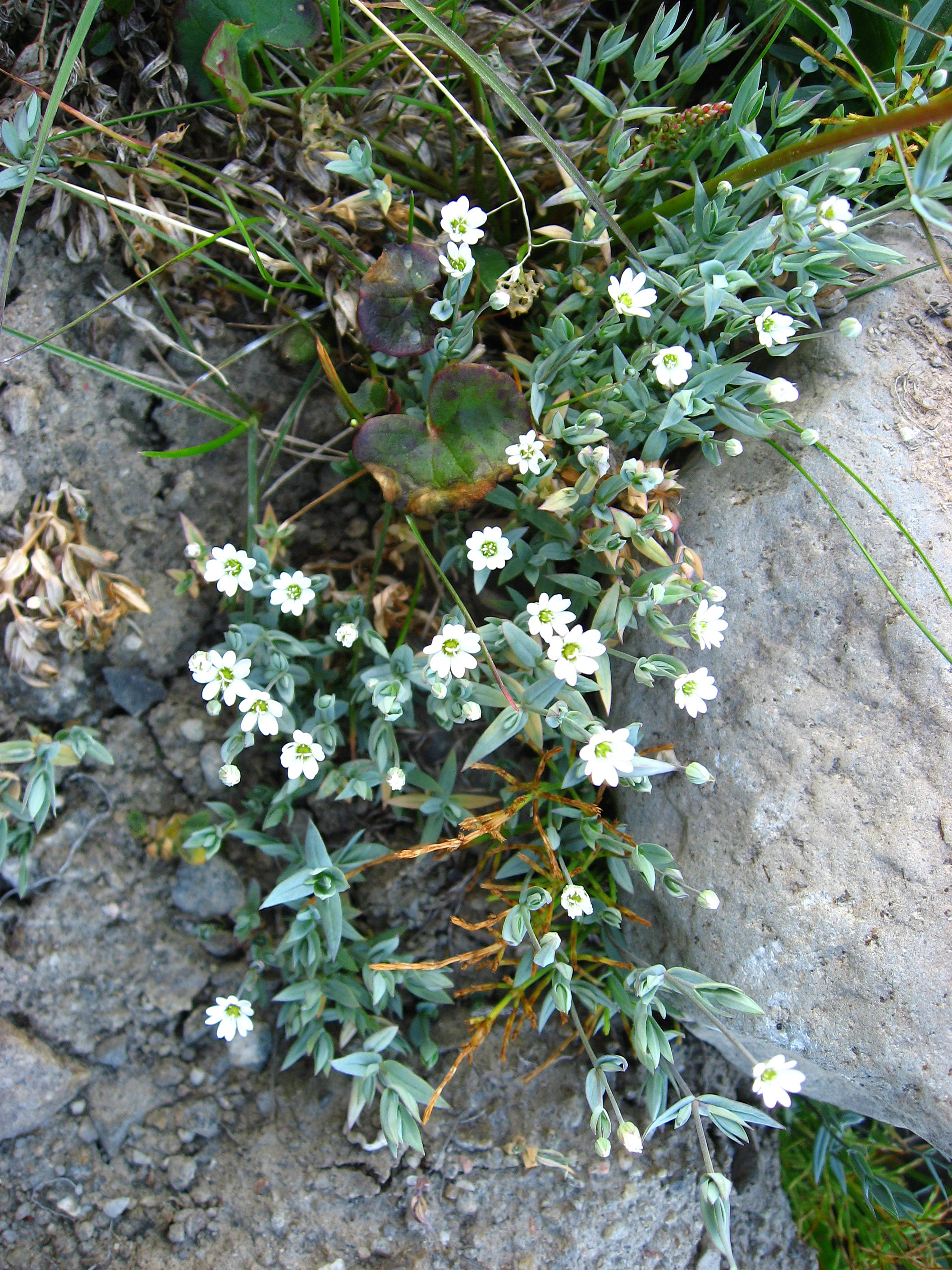 Long-stalk starwort (Stellaria longipes) photographed near eastern beach in Kangersuatsiaq, Greenland.